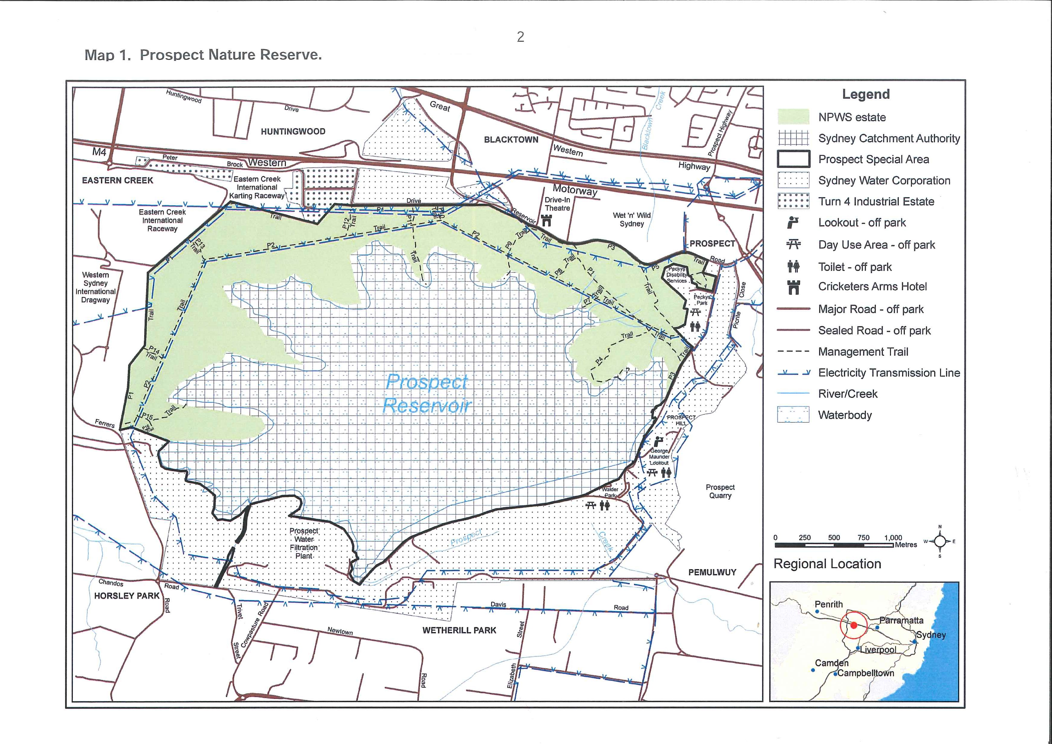 map